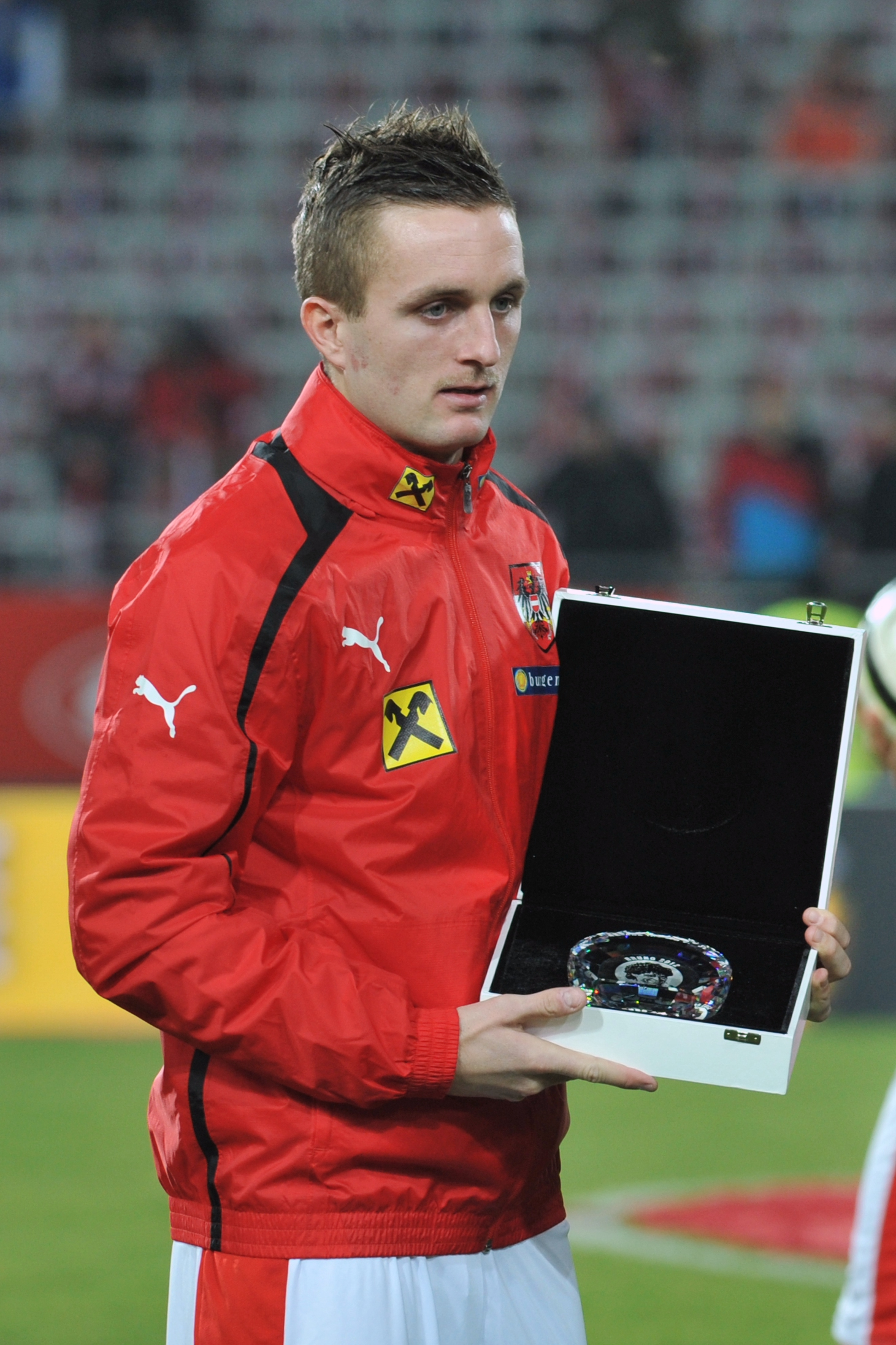 ÖFB freundschaftliches Länderspiel - Österreich vs Elfenbeinküste am 14. November 2012 The making of this work was supported by Wikimedia Austria. For other files made with the support of Wikimedia Austria, please see the category Supported by Wikimedia Österreich. 16: Jakob Jantscher Spieler der Saison 2012